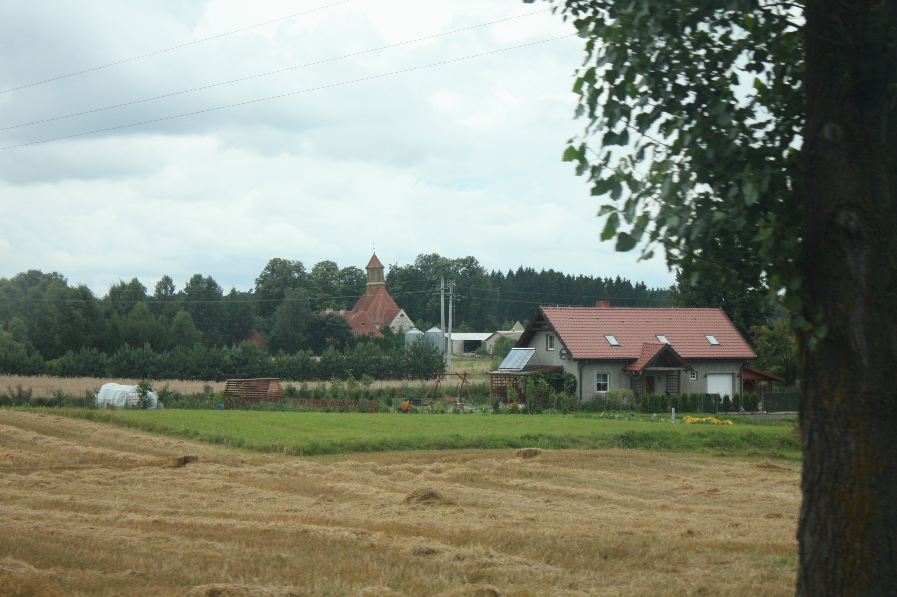 This photo of Warmian-Masurian Voivodeship was taken during Wikiexpedition 2012 set up by Wikimedia Polska Association.You can see all photographs in category Wikiekspedycja 2012. The making of this document was supported by Wikimedia Polska.